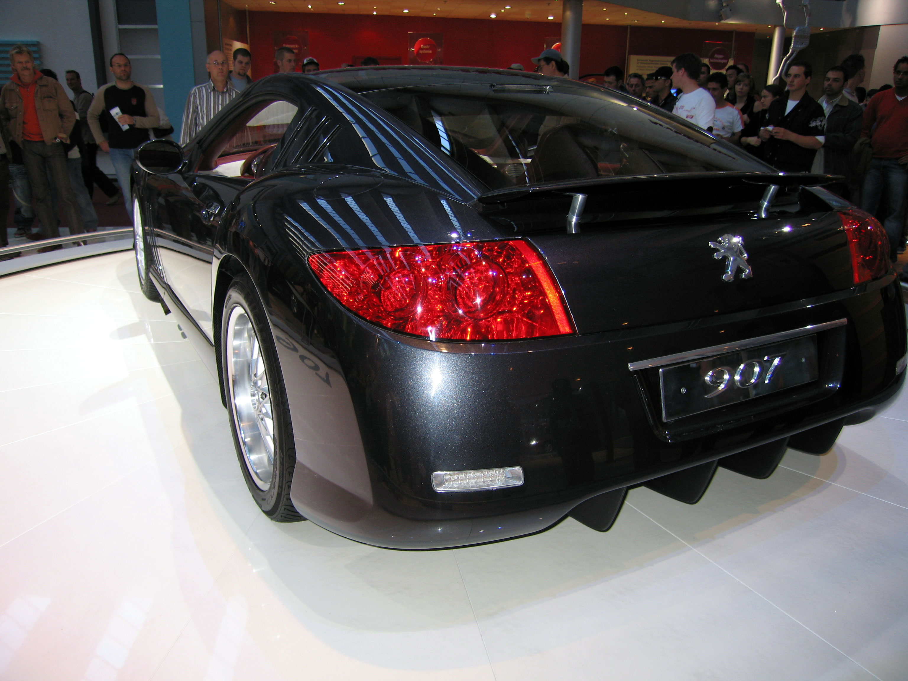 Peugeot 907 at the IAA 2005